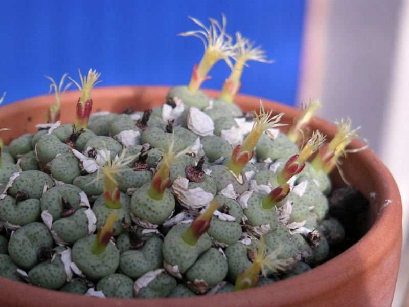 Personnal collection